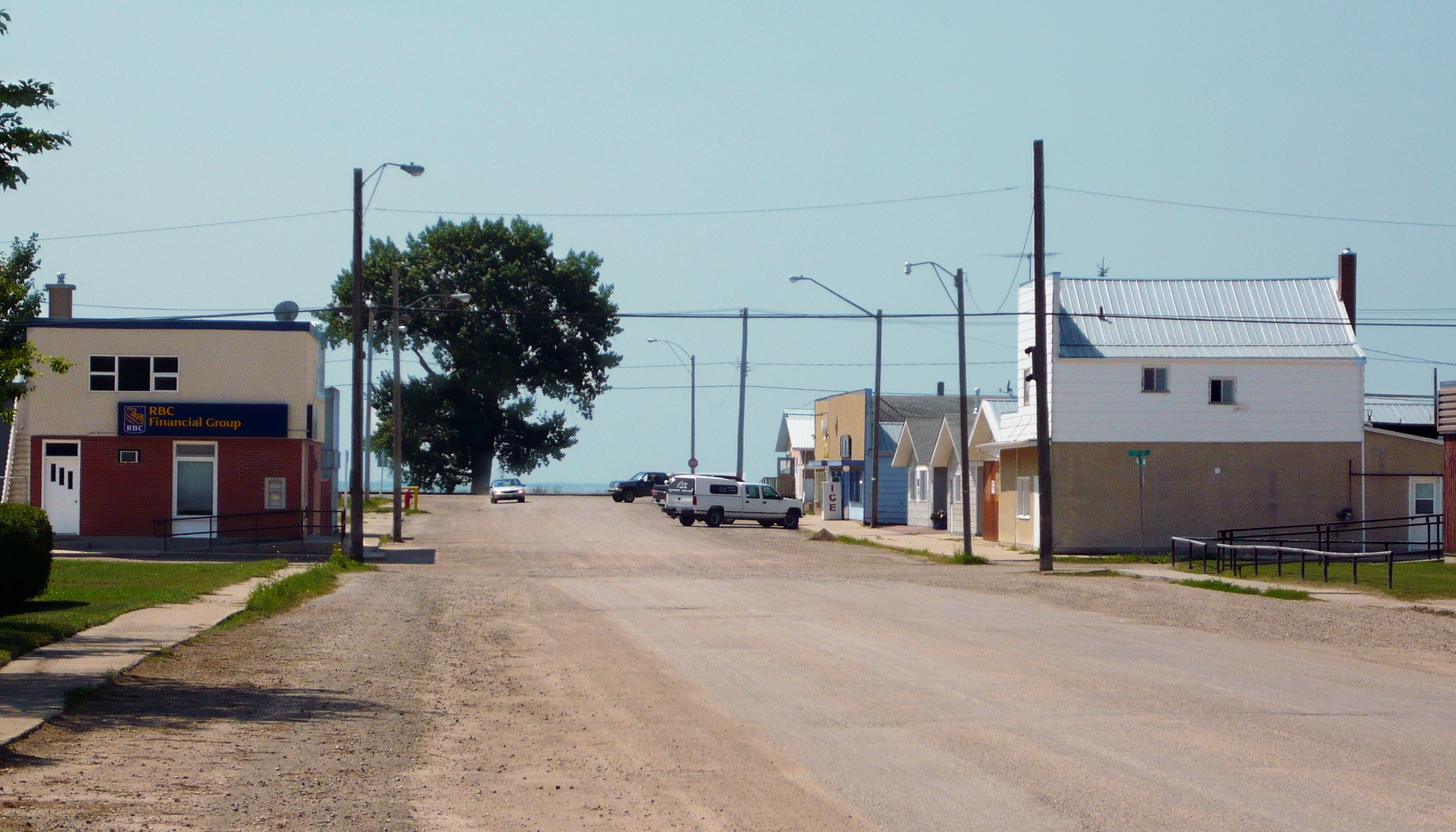 Business District of Hanley, Saskatchewan, Canada. Looking southwestward from the intersection of 2nd Street and Lincoln Street.